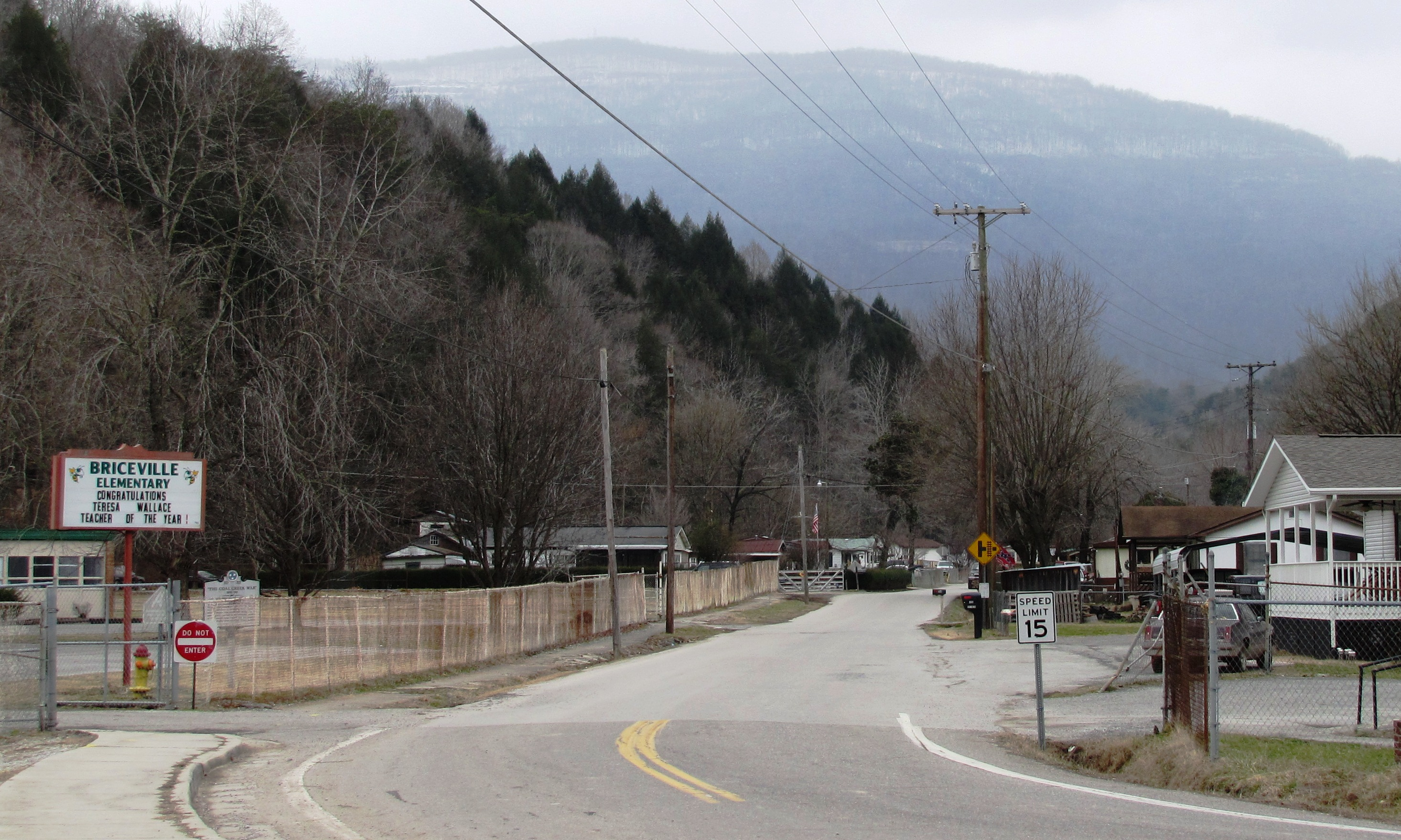 View up Slatestone Rd. from its junction with Highway 116 in Briceville, East Tennessee. The 3,534-ft (1,077m) Cross Mountain— the highest mountain in Tennessee west of the Blue Ridge province— rises in the distance.